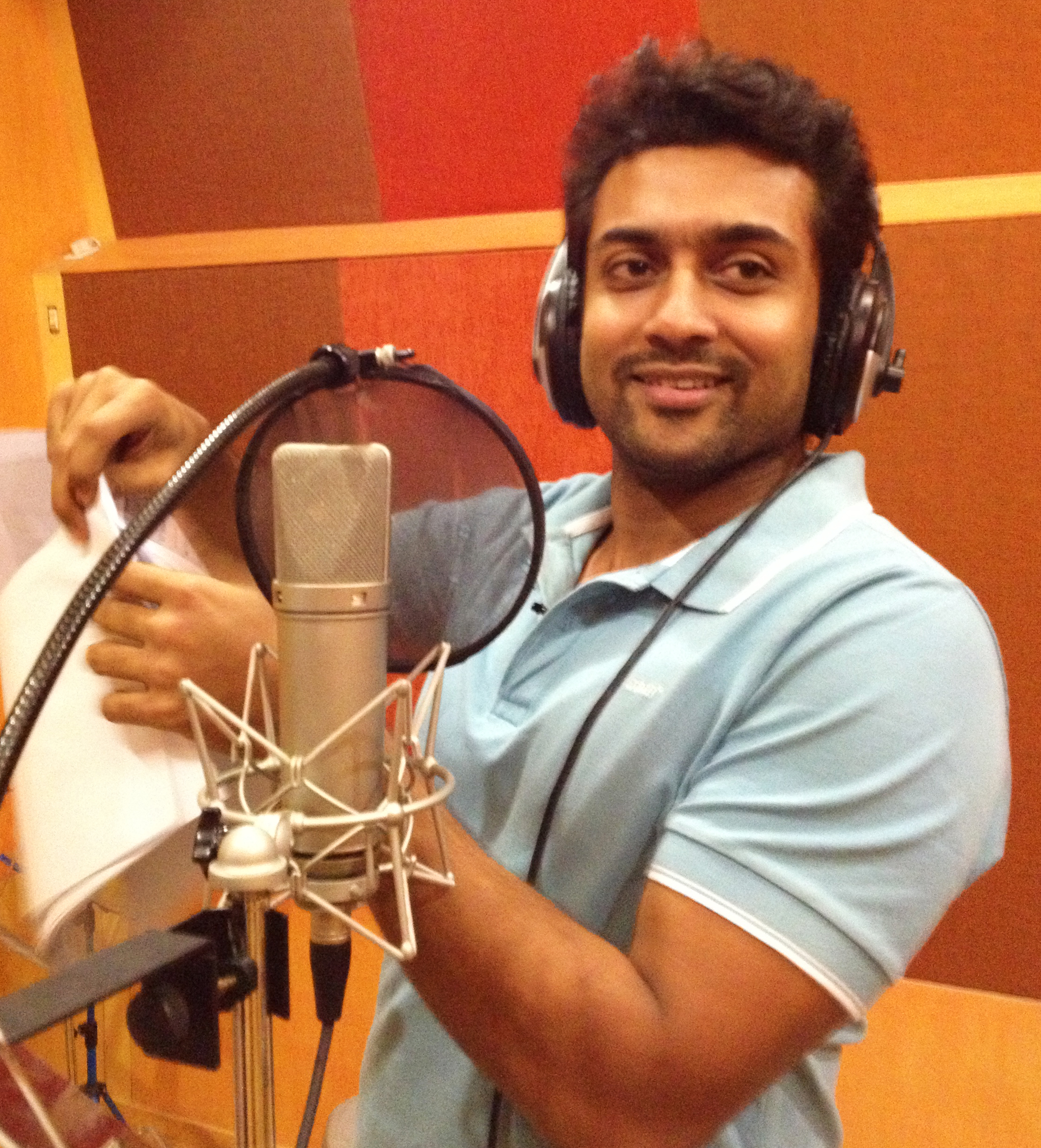 Actor Suriya records his voice for the Tamil language version of the TeachAIDS animation at Rajiv Menon Productions in Chennai, Tamil Nadu. Photo credit: TeachAIDS